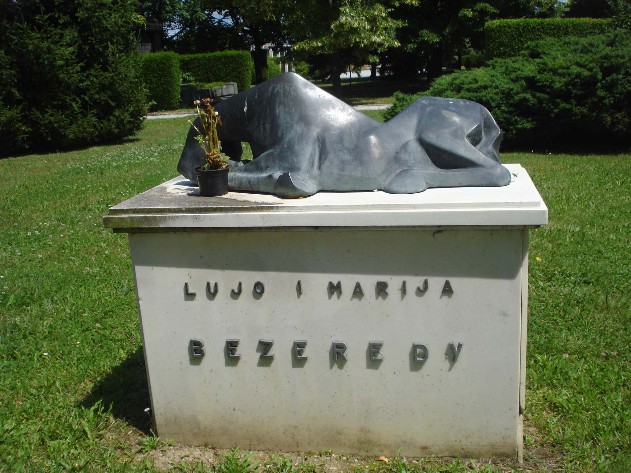 Gravestone of Lujo Bezeredy, Croatian sculptor and painter, (1898-1979), and his wife Marija at Čakovec cemetery, Croatia - southwest viewHrvatski: Nadgrobni spomenik Luje Bezeredyja, hrvatskog kipara i slikara (1898-1979), i njegove supruge Marije na Čakovečkom groblju, Hrvatska - jugozapadna strana